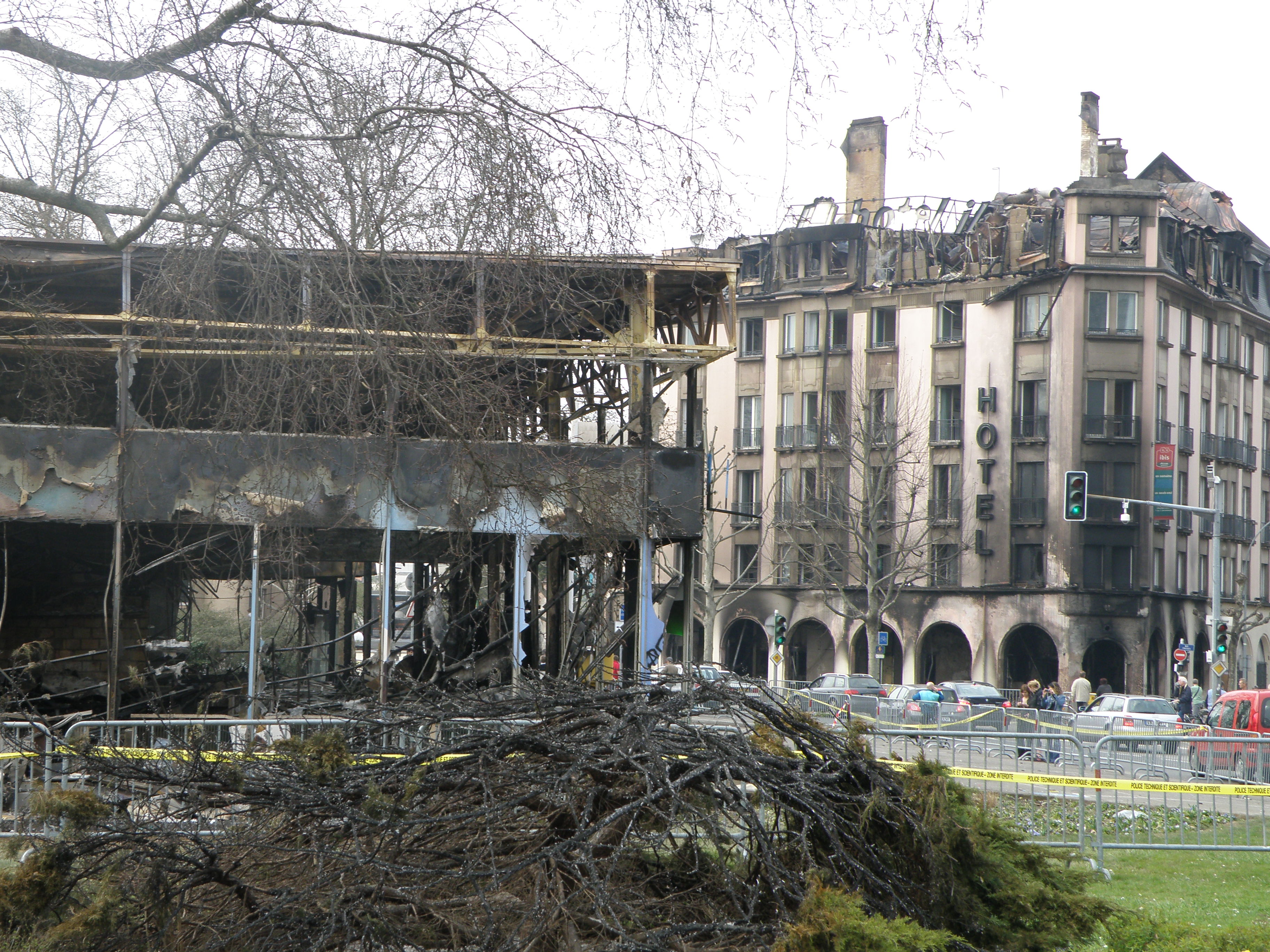 In Strasbourg, near the Europe bridge, the pharmacy and the Ibis hotel on april 5, 2009, after the riots the day before against the NATO Strasbourg–Kehl summit.